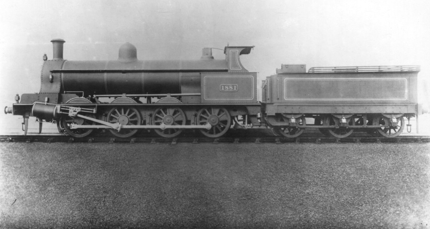 Photograph of LNWR locomotive No. 1881 B Class